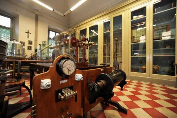 gabinettofisicasarpi